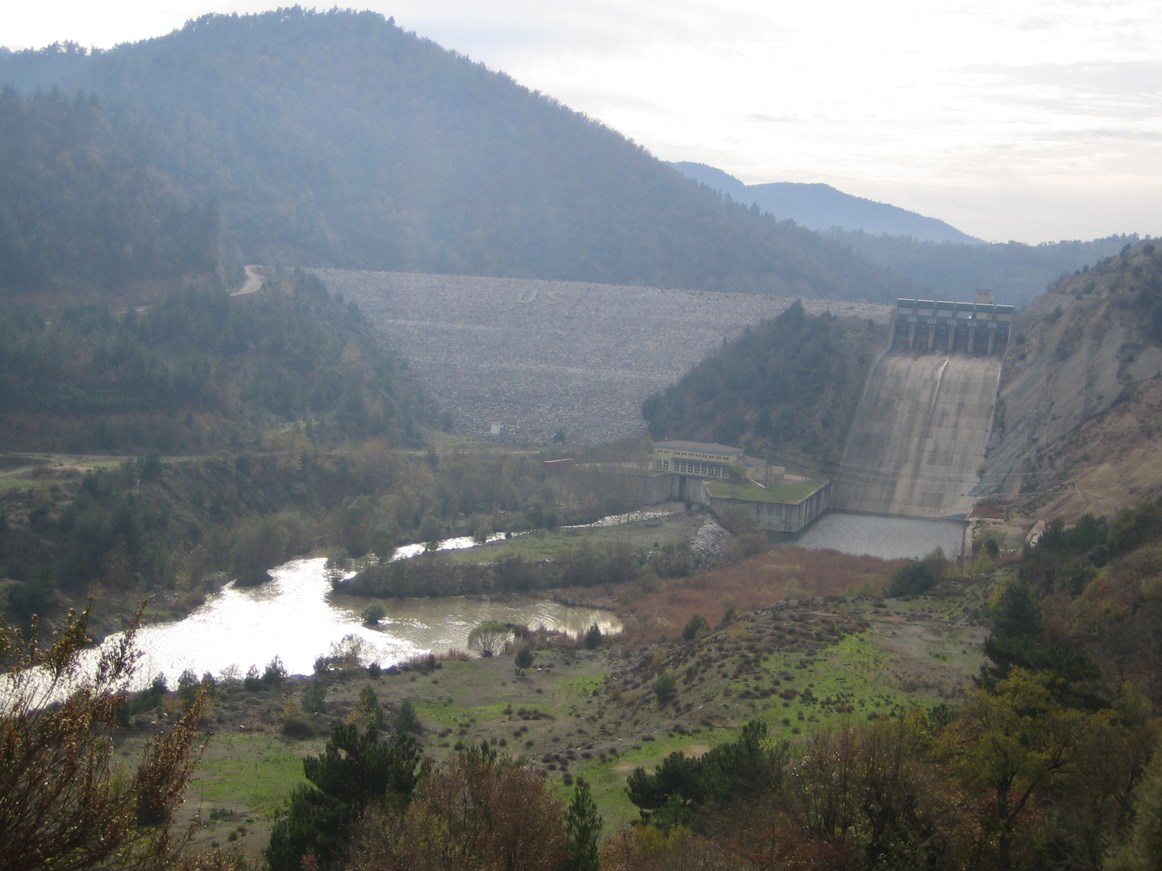 Gönen Dam.